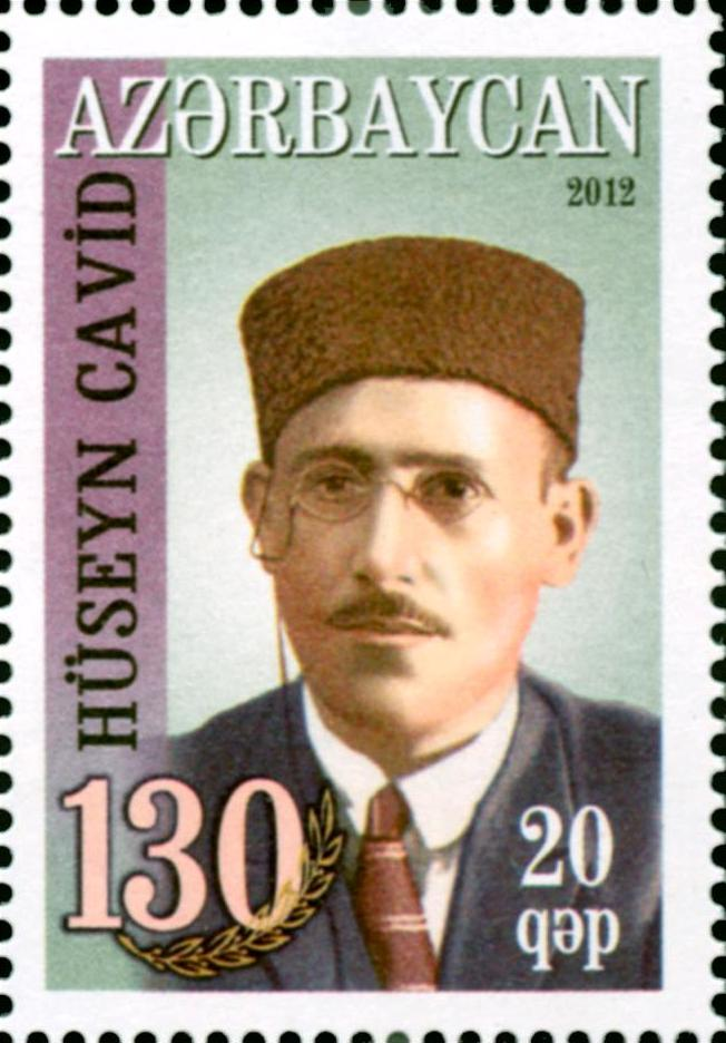 N 1054 - 20 qapik. There is pictured the great Azerbaijan writer Guseyn Cavid on the stamp.